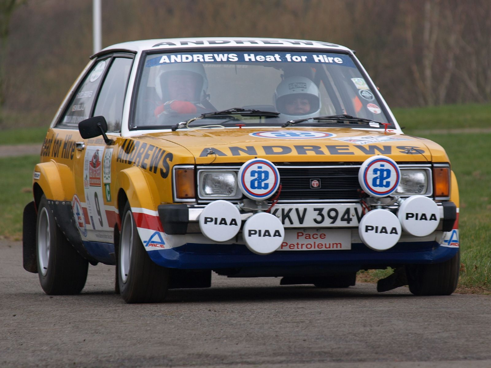 Russell Brookes' Talbot Sunbeam Lotus driven at Race Retro 2008, the International Historic Motorsport Show, at Stoneleigh Park, Coventry, England.